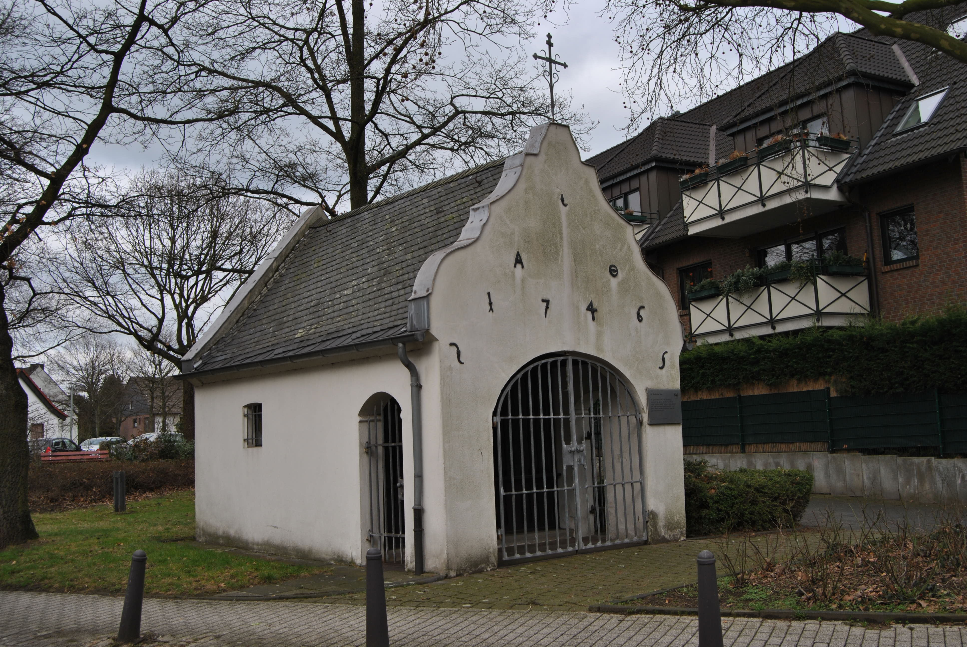 This photograph was taken with a Nikon D3000 This image shows a heritage building in Germany, located in the North Rhine-Westphalian city Duisburg. Die barocke Rochuskapelle in Huckingen - Denkmalliste Duisburg, Nr. 51 - Objektkoordinaten: 51.22'3.49"N, 6.44'54.02"E